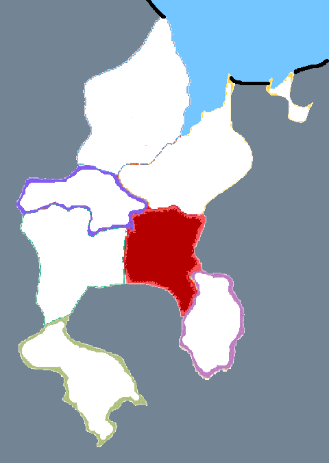 Location of Bincheng district in Binzhou City, China